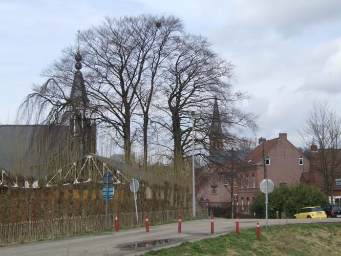 View of Tielrode from the dike on the Durme.